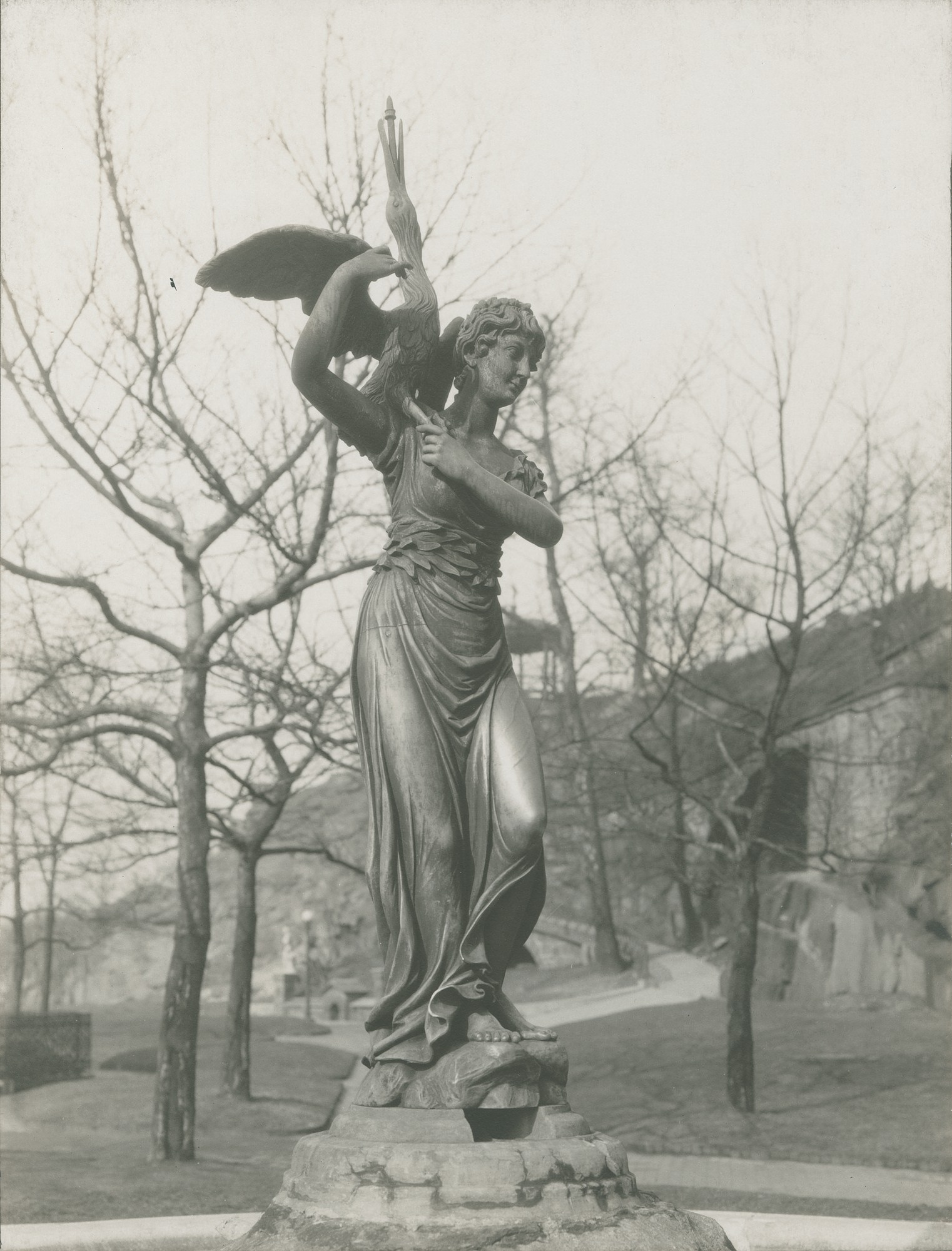 Water Nymph and Bittern Fountain, Fairmount Park, Philadelphia, Pennsylvania.